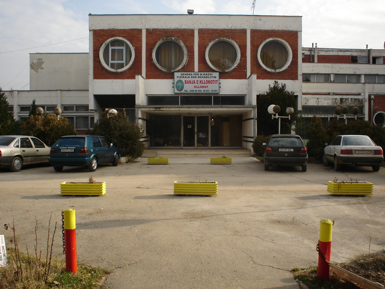 Center for physical medicine and rehabilitation Location: Kllokot - Kosovo